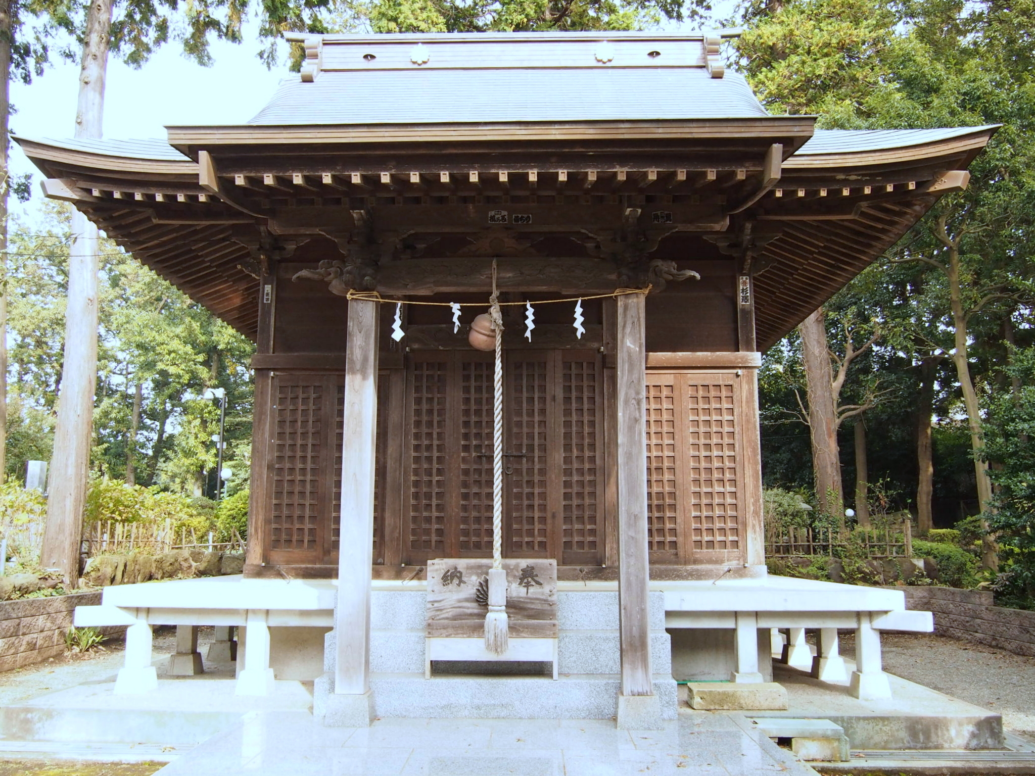 Kotohira Jinja (izumiku, yokohamashi, kanagawa, japan)